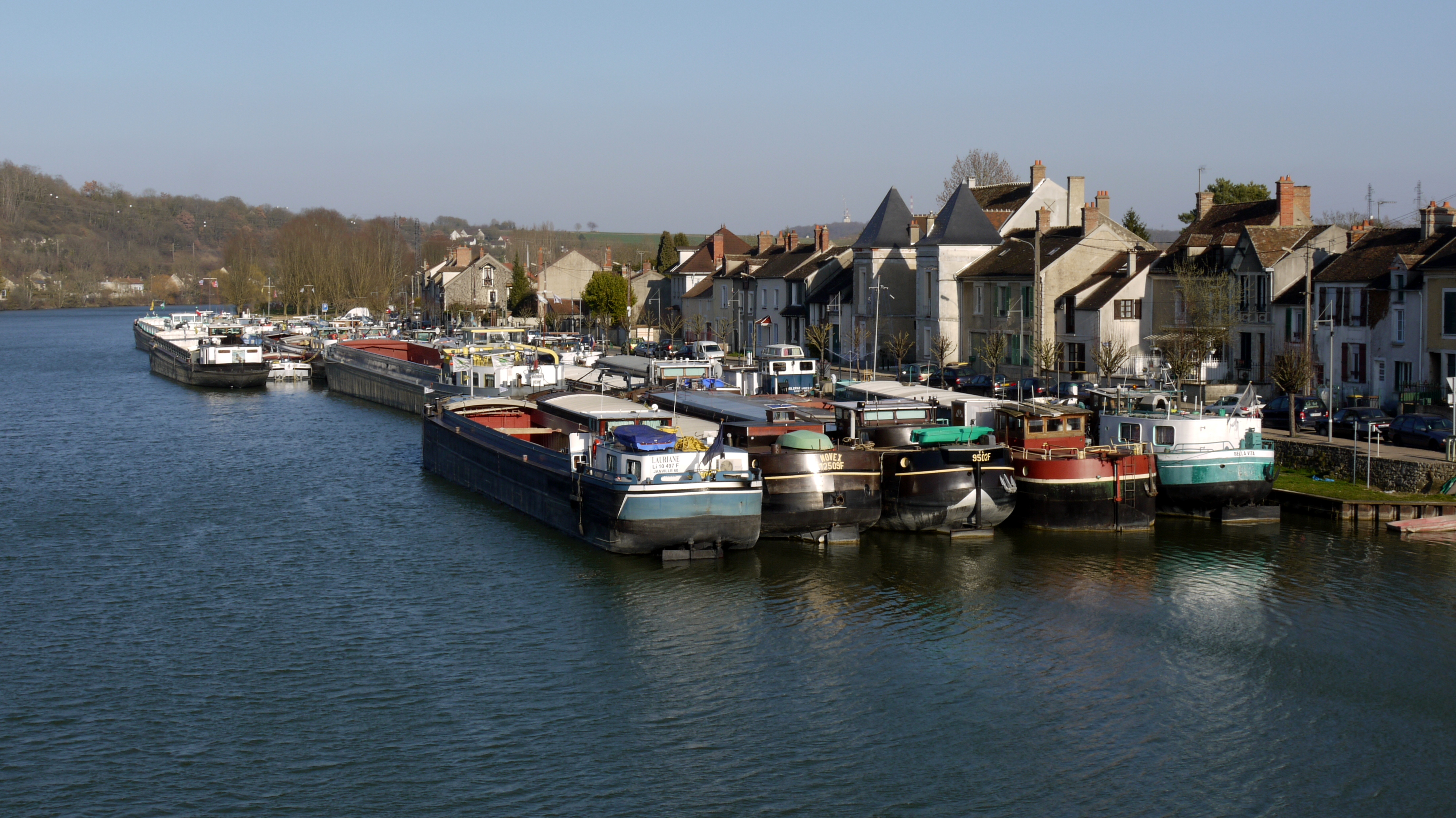 Péniches in Saint-Mammès on the river Seine.